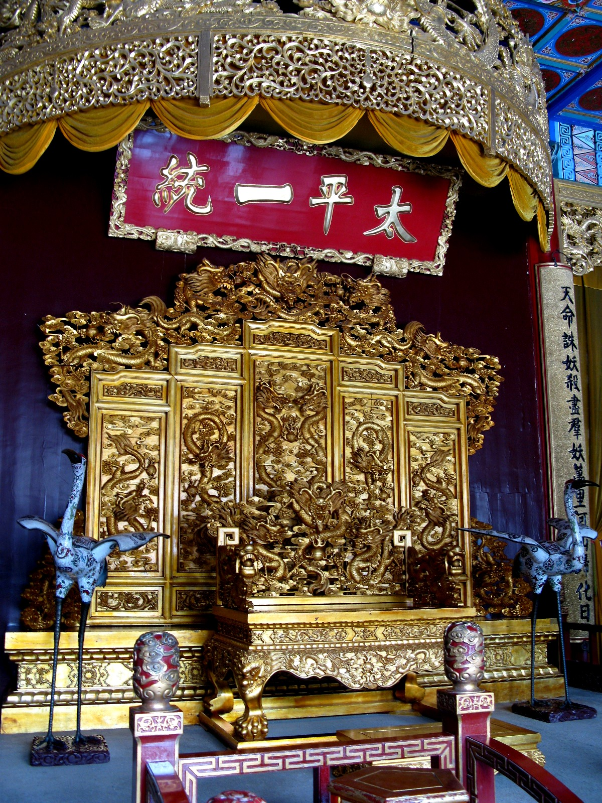 Throne of the Taiping Heavenly Kingdom, old presidential palace, Nanjing.